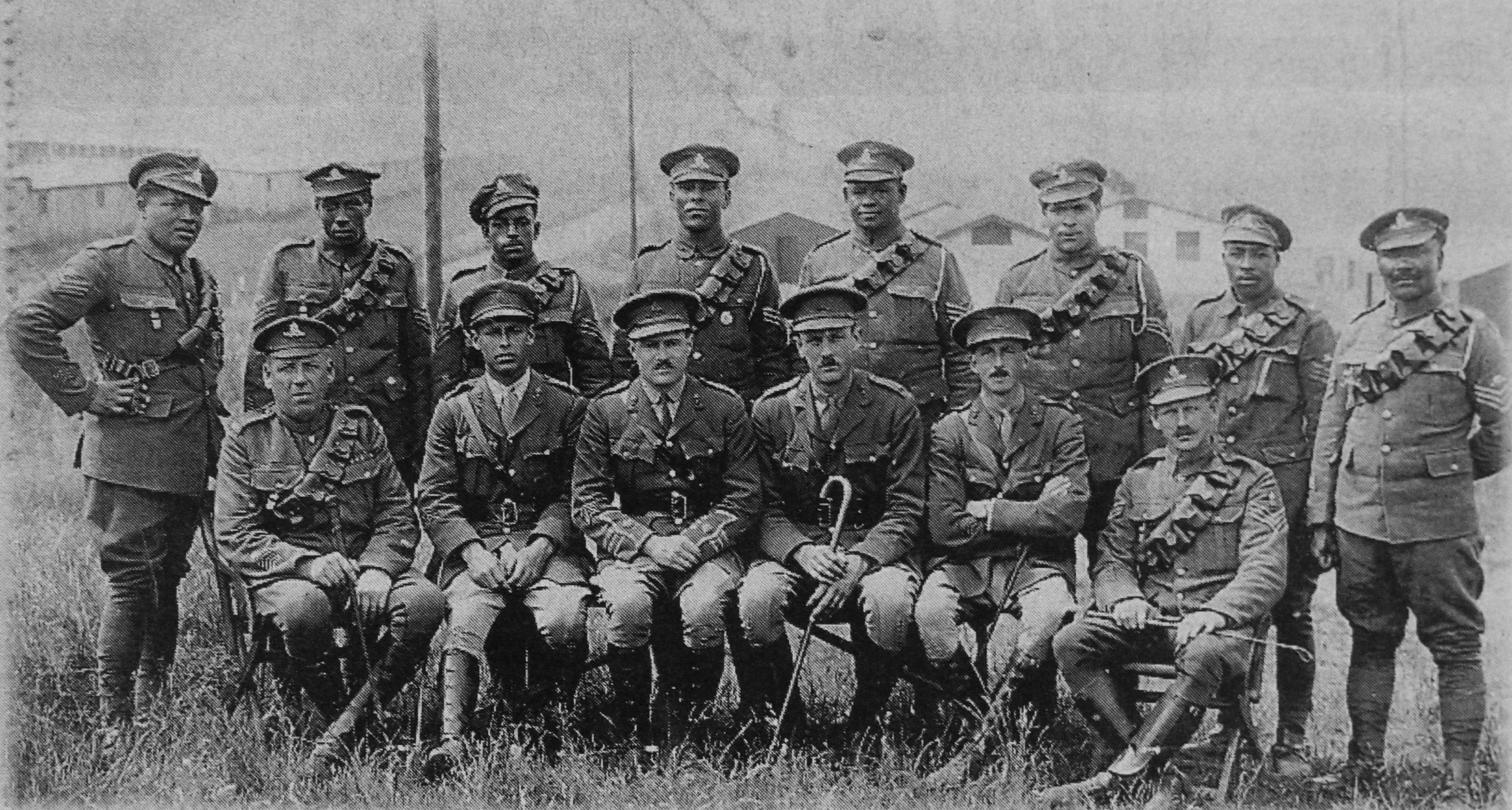 Bermuda Contingent, Royal Garrison Artillery (draft from the Bermuda Militia Artillery), in Europe during the Great War.